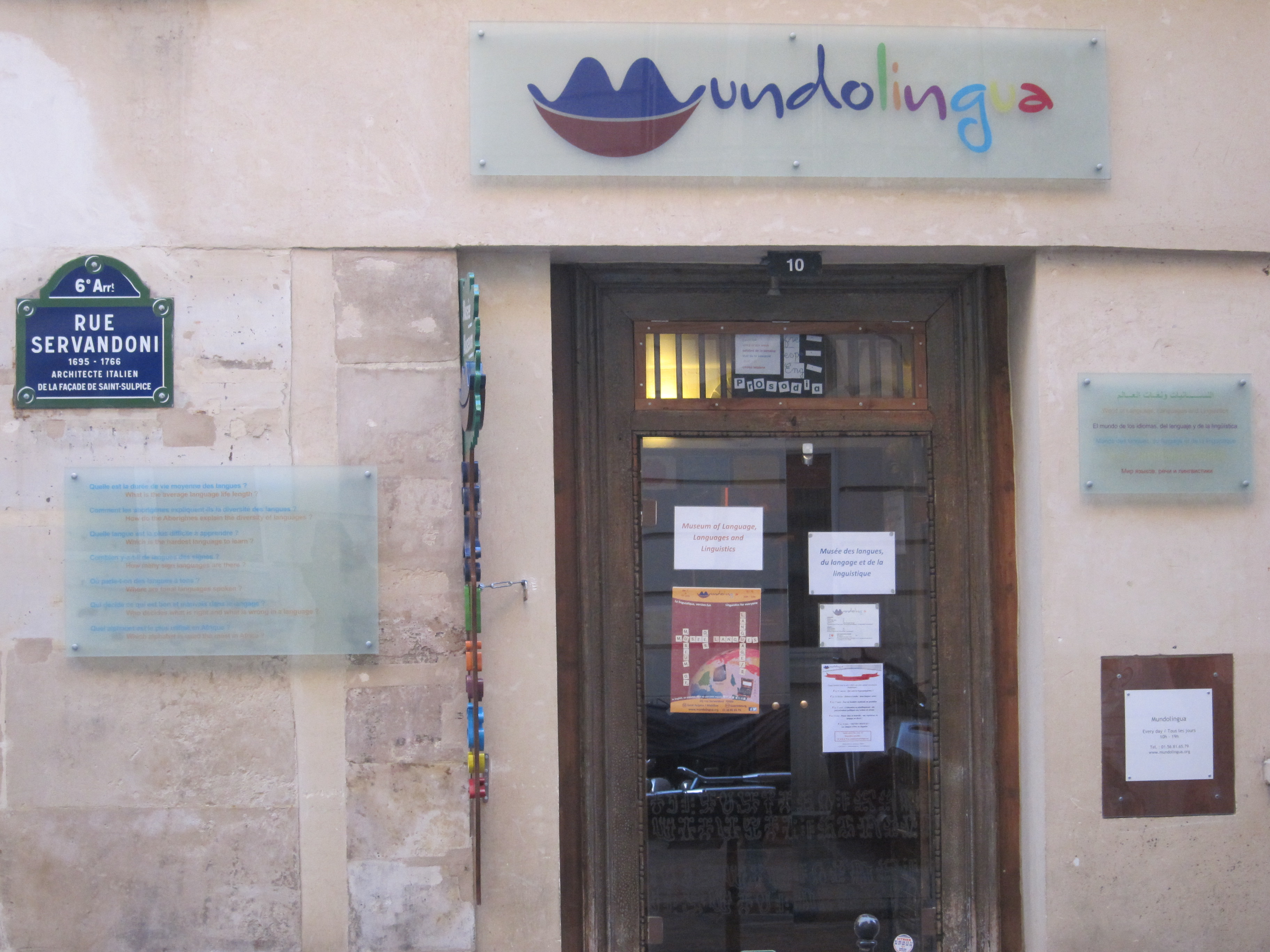 Mundolingua museum : external view of the front door